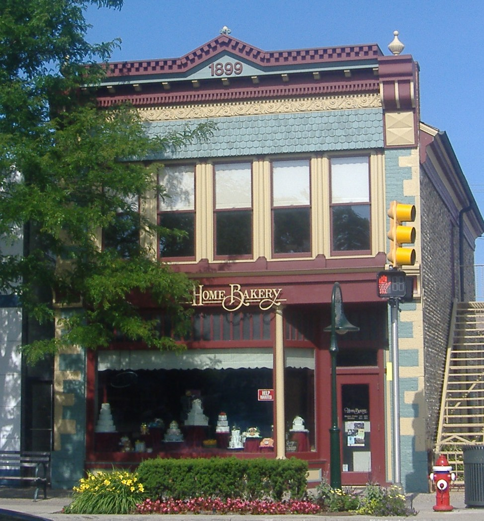 Rochester, Michigan. Rollin Sprague Building. Oldest commercial building in Rochester, Michigan. Built in 1849 of coursed cobblestone. Reflects its 1899 appearance. Home Bakery located here in 1930. Picture taken June 23, 2007.